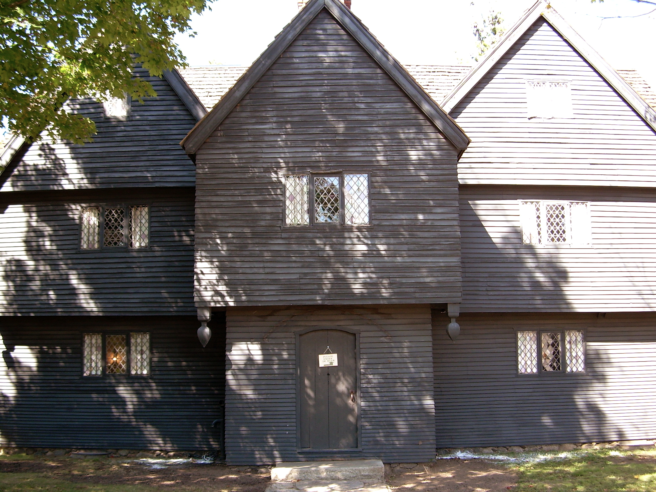 Judge Corwin House, Salem, Massachusetts, 2006. Taken by me, Willjay.